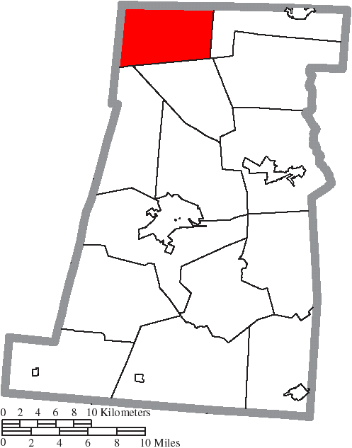 Map of the municipal and township boundaries of Madison County, Ohio, United States, as of the 2000 census, with the location of Pike Township highlighted. Township borders are shown only in unincorporated areas in order to differentiate incorporated and unincorporated areas more clearly.